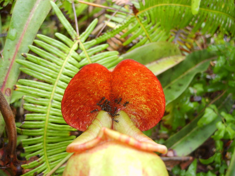 Ants feeding on nectar produced by Nepenthes bokorensis